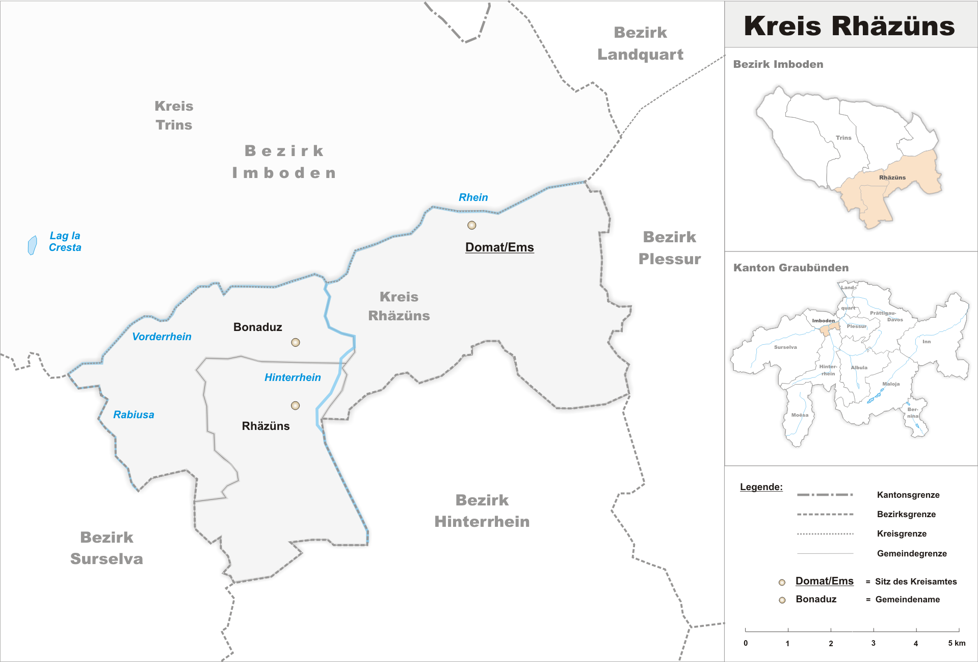 Municipalities in the circle of Rhäzüns